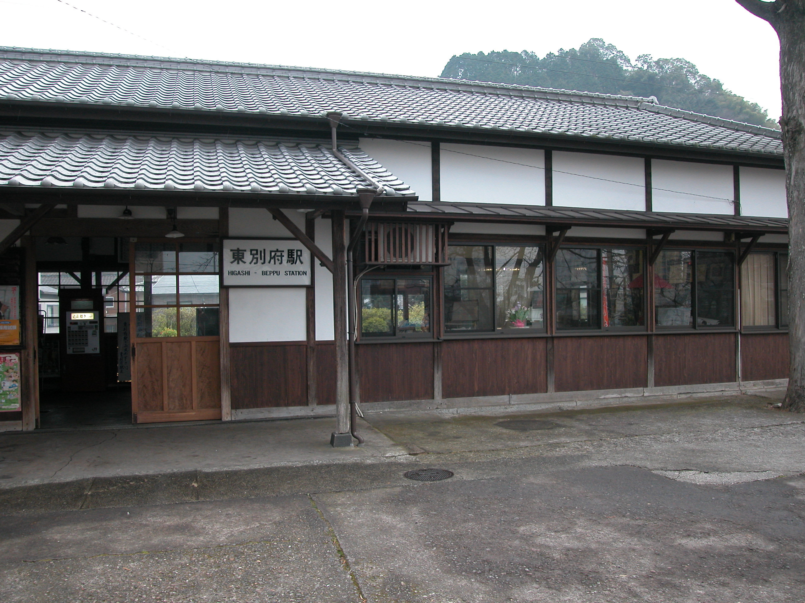 Higashi-Beppu Station